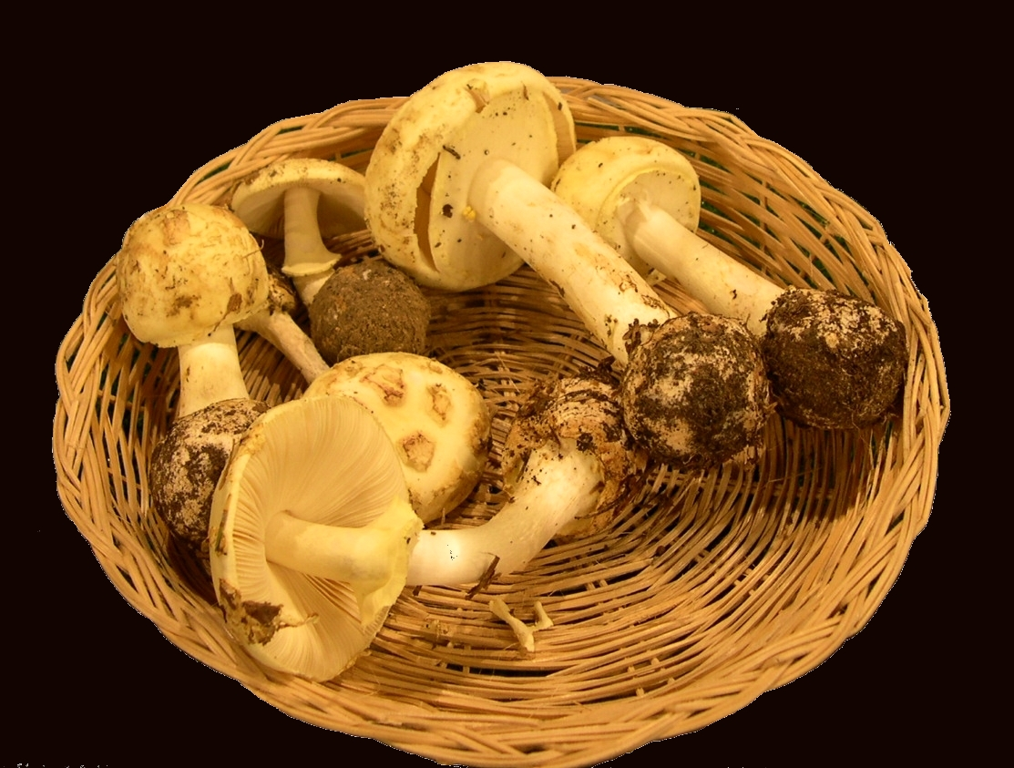 Amanita citrina (Schaeff.) Persoon